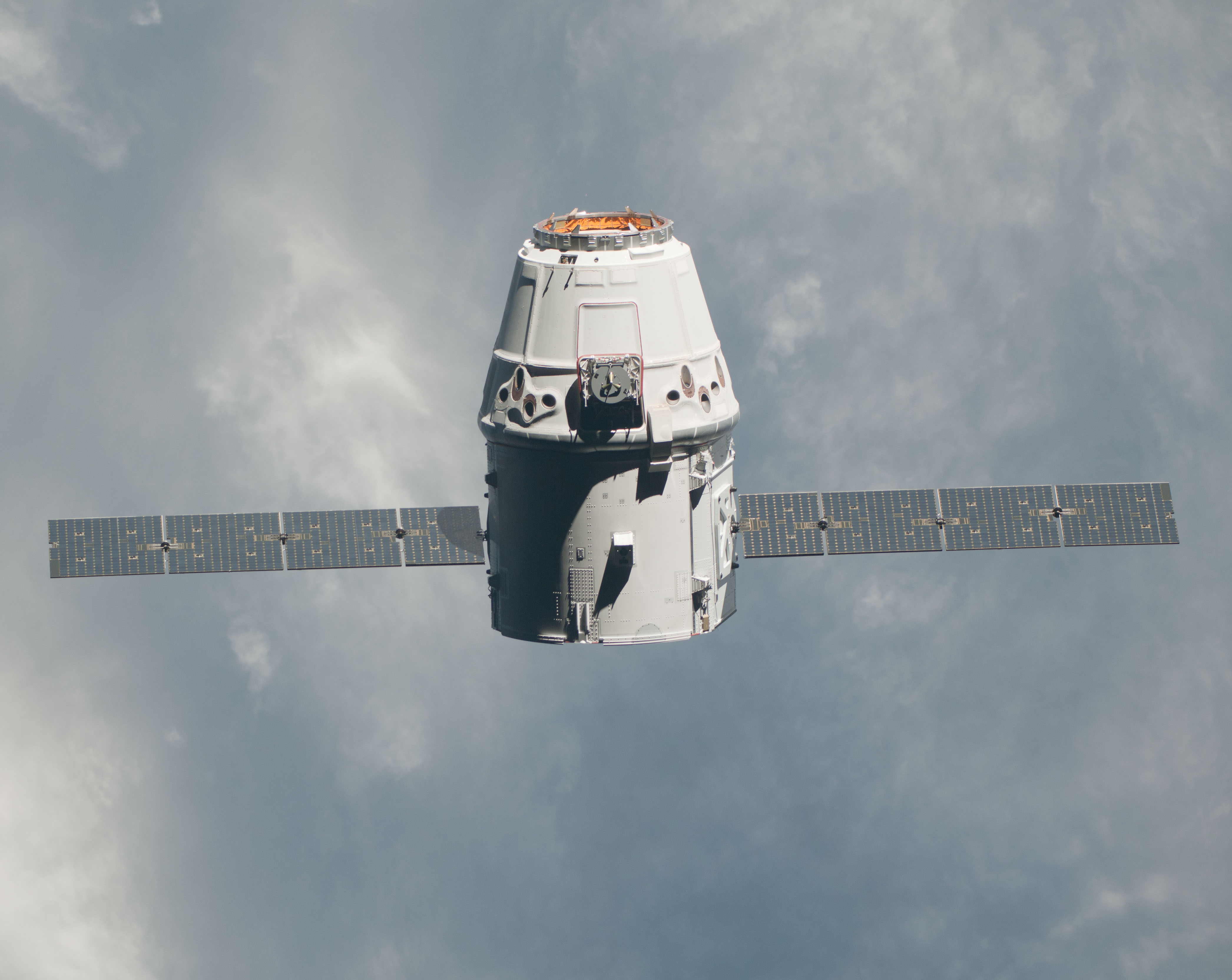 The SpaceX Dragon commercial cargo craft approaches the International Space Station on May 25, 2012 for grapple and berthing. Expedition 31 Flight Engineers Don Pettit and Andre Kuipers grappled Dragon at 9:56 a.m. (EDT) with the Canadarm2 robotic arm and used the robotic arm to berth Dragon to the Earth-facing side of the station's Harmony node at 12:02 p.m. May 25, 2012. Dragon became the first commercially developed space vehicle to be launched to the station to join Russian, European and Japanese resupply craft that service the complex while restoring a U.S. capability to deliver cargo to the orbital laboratory. Dragon is scheduled to spend about a week docked with the station before returning to Earth on May 31 for retrieval.